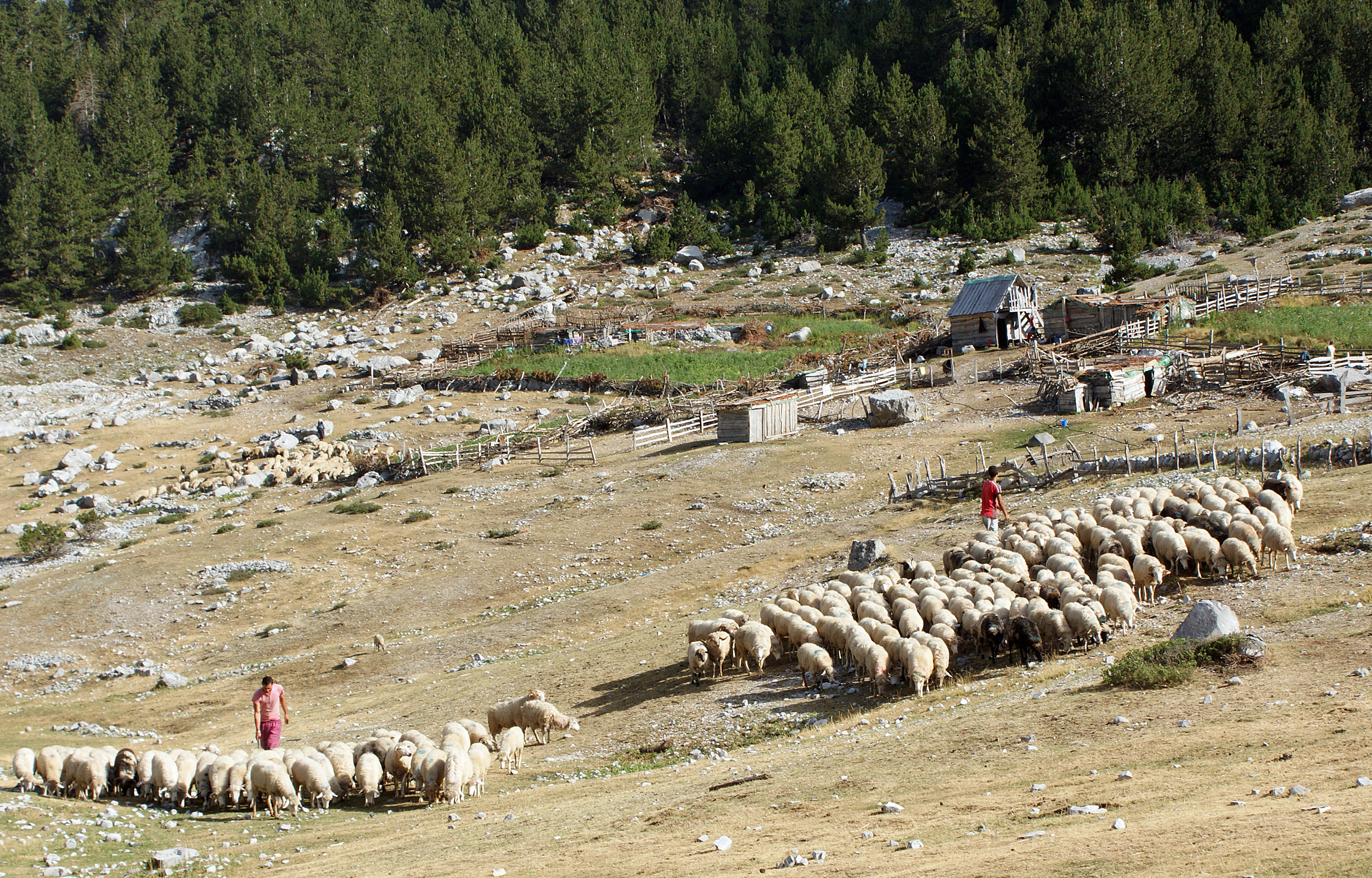 Summer pasture in the Albanian Alps at Qafa Dobraçes. Shepherds bringing the flocks of Sheep to fields of snow in the morning.